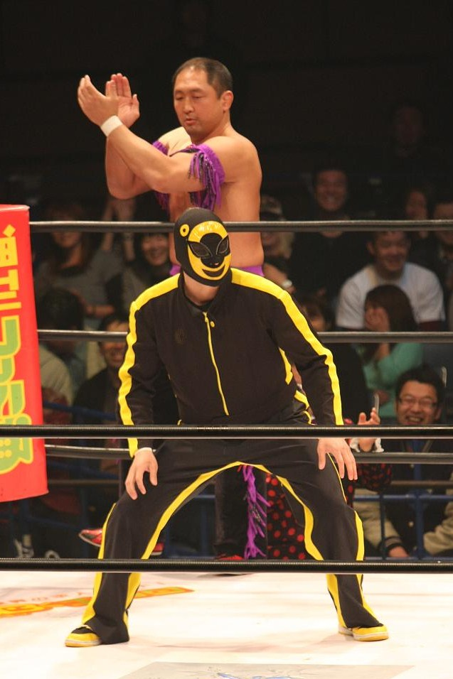 Monster C and Shinjiro Otani